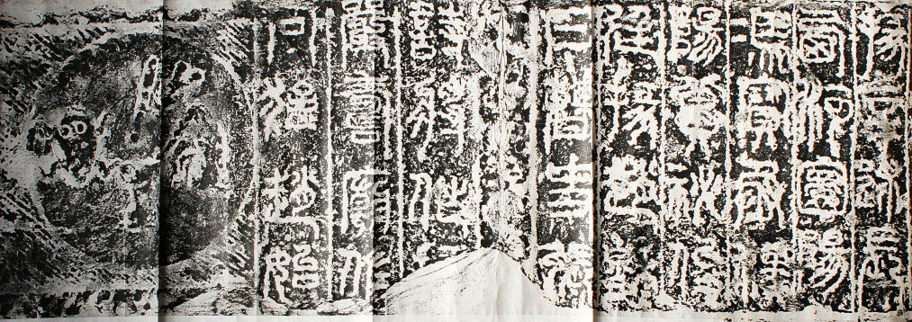 Rubbing: A Part of Scription on the stone gate in Mount Song, Honann Province,China, which was built in Later Han dynasty; about ACE123